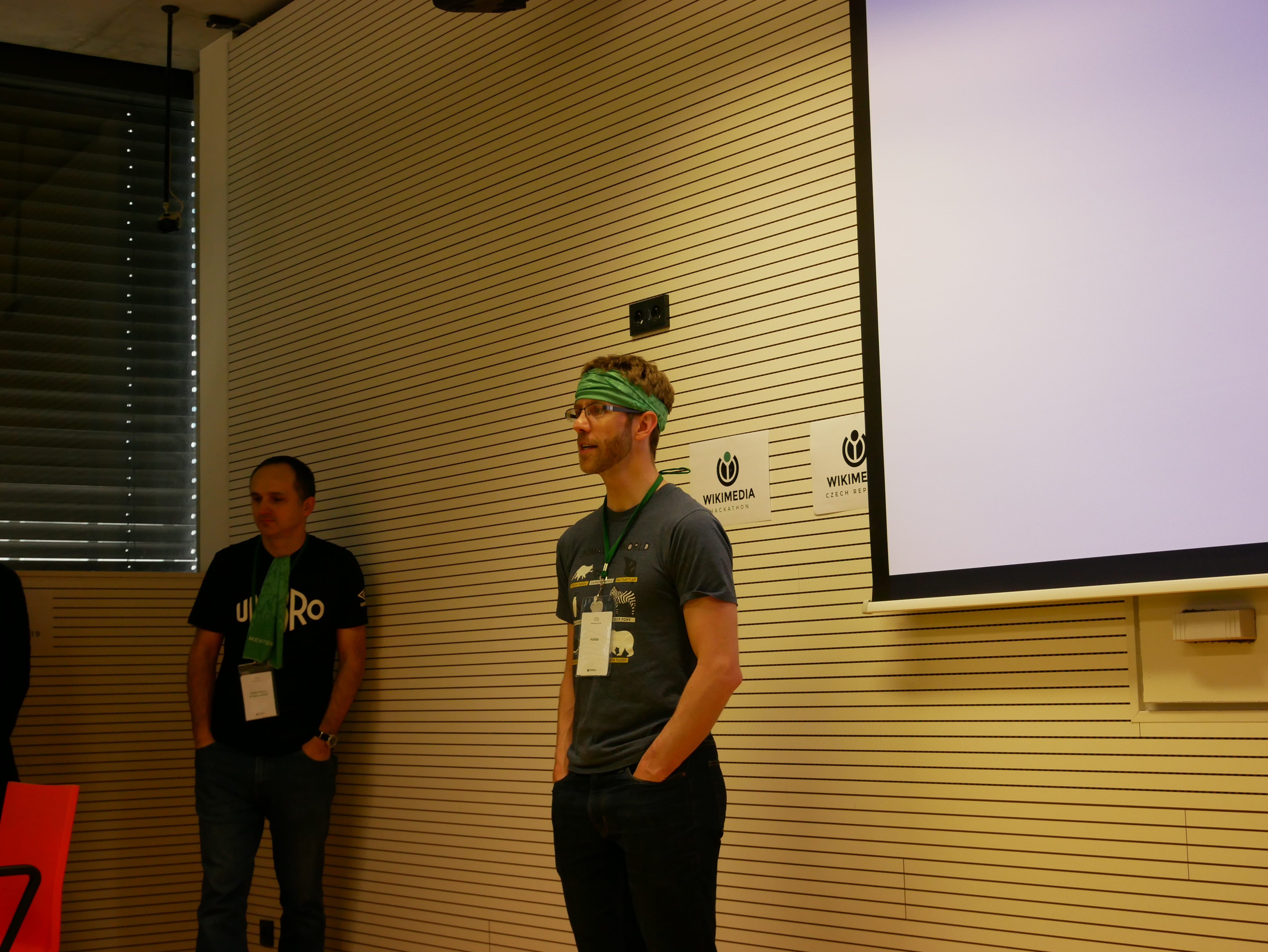 Wikimedia Hackathon 2019 Mentor Matching Program